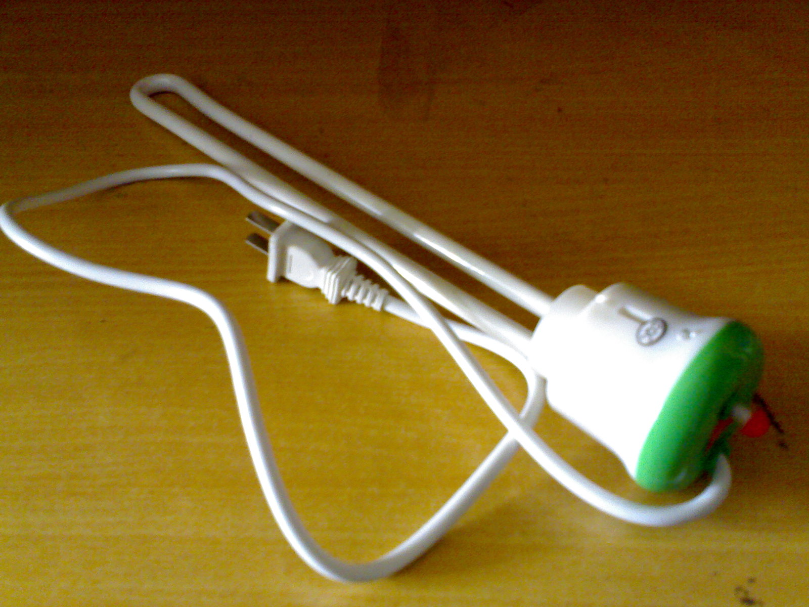 Fast heater(热得快)